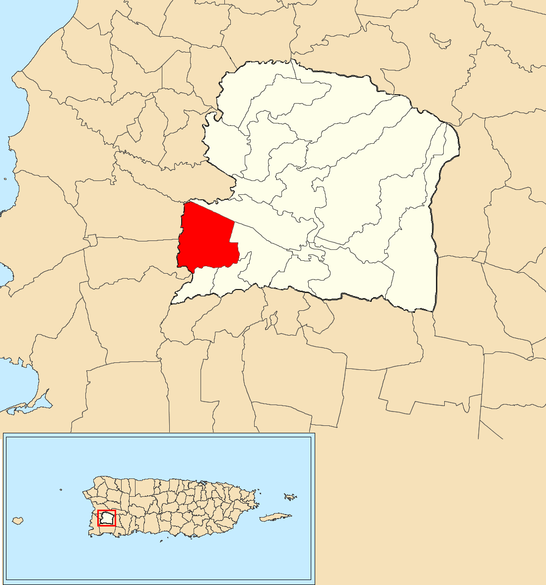 Sabana Eneas, San Germán, Puerto Rico locator map